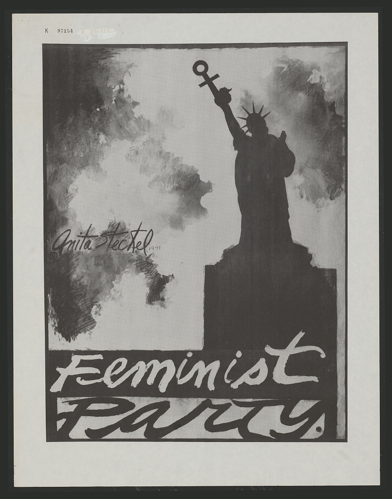 Black and white painting by Anita Steckel; silhouette of Statue of Liberty holding the Venus symbol; caption says "Feminist Party".